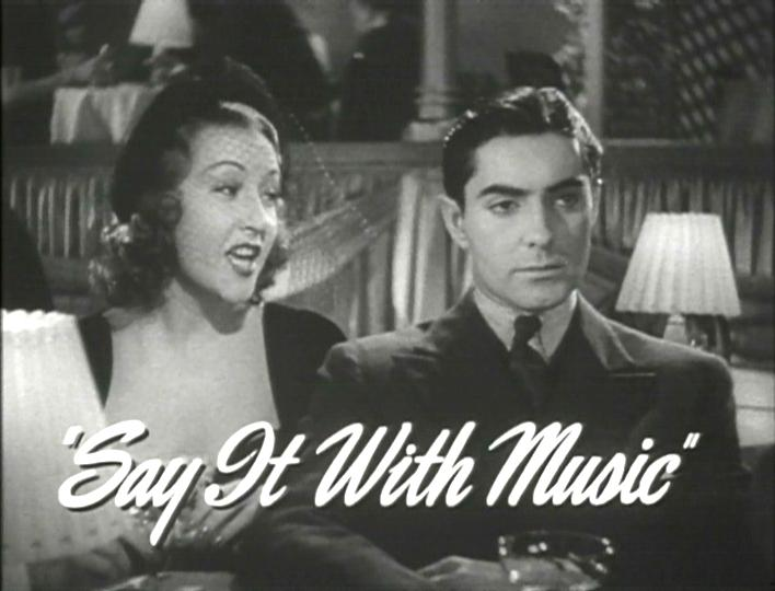 Screenshot of Ethel Merman and Tyrone Power from the trailer for the film Alexander's Ragtime Band